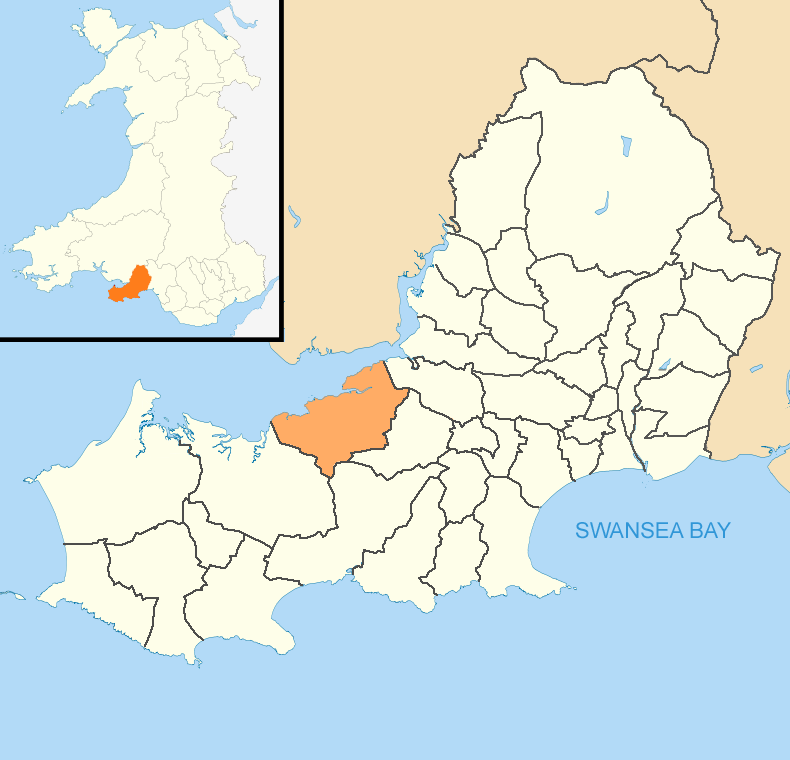 Location map of the community (civil parish) of Llanrhidian Higher (post-2011) in the City and County of Swansea, Wales